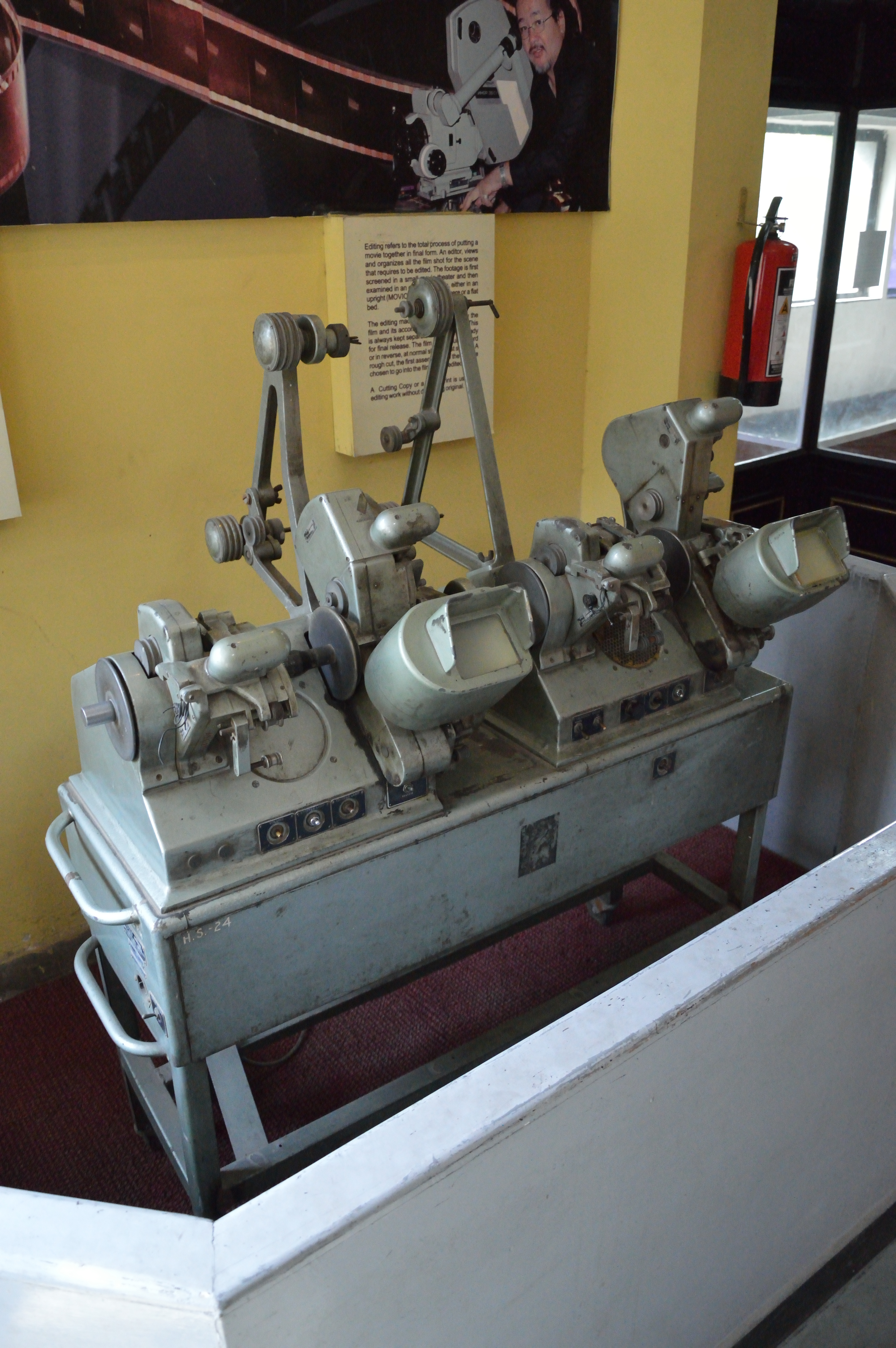 Photographed in New Delhi.